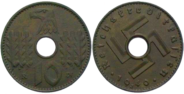 Currency of occupied countries of Nazi Germany (1940,1941).